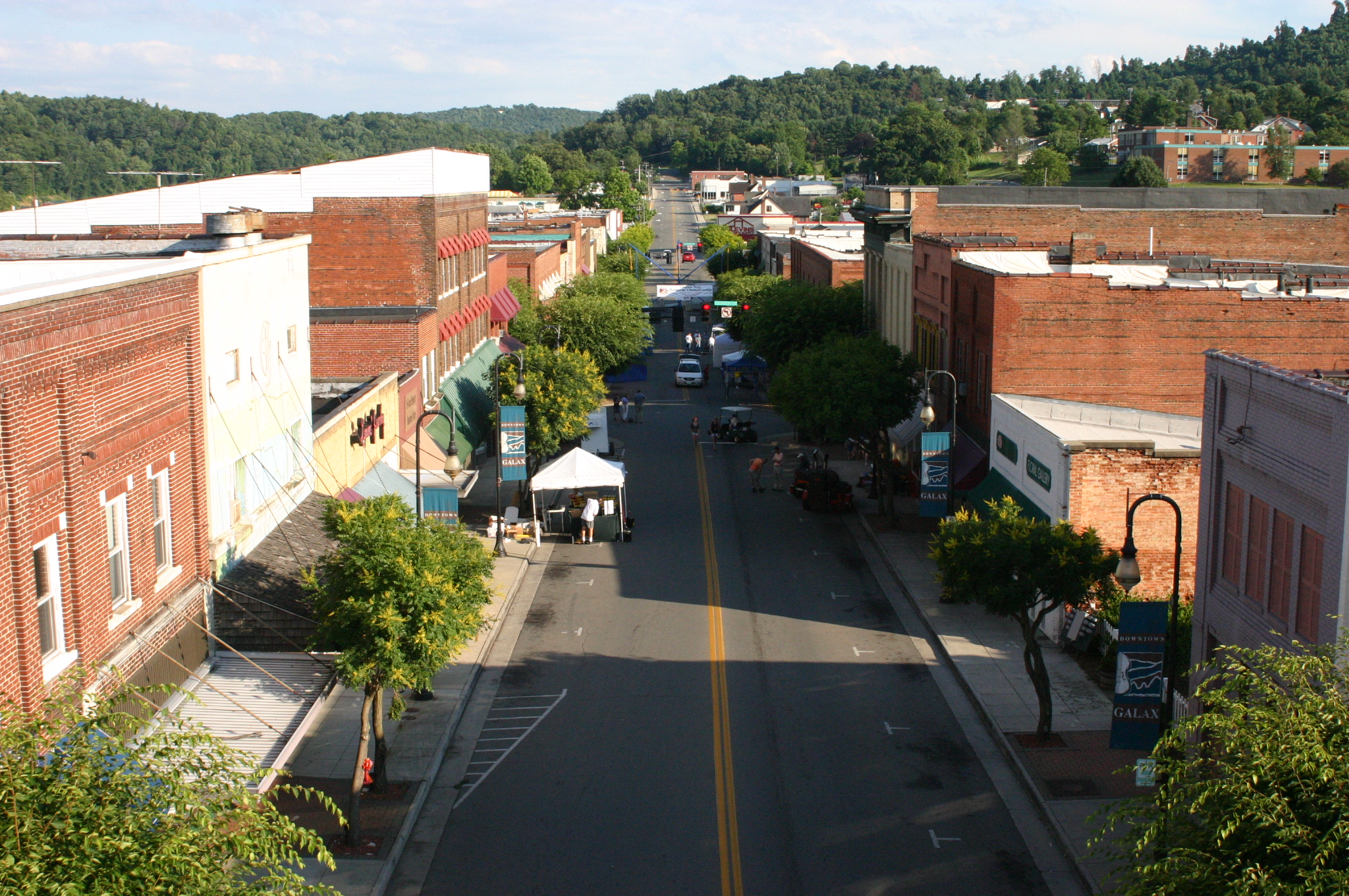 City of Galax, Virginia, Main Street.